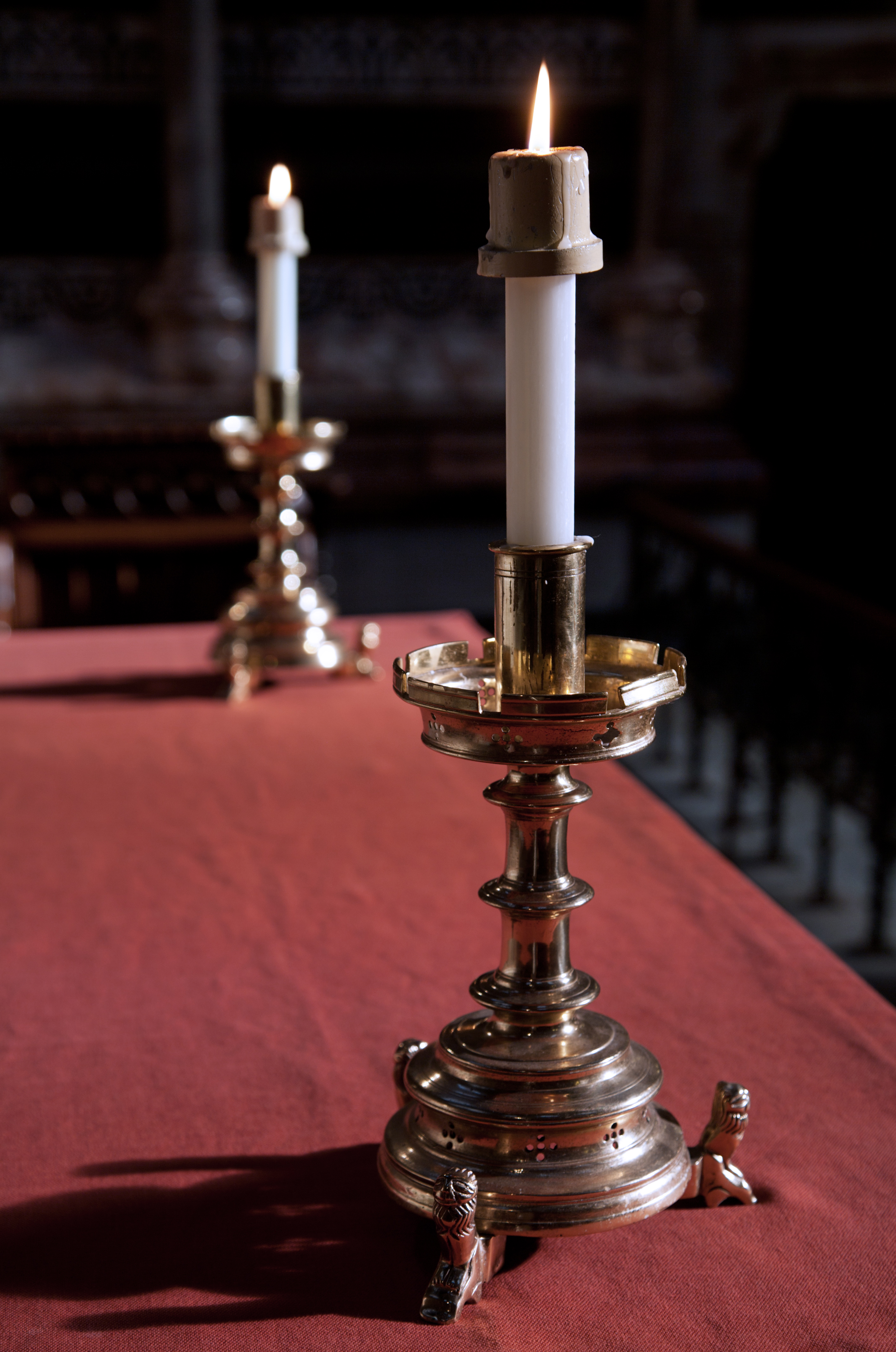 Keble College Chapel, Oxford, UK